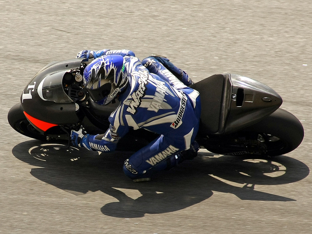 @ Sepang MotoGP Camera: Canon 40D Edit: Adobe Photoshop CS3 Photo: motosport